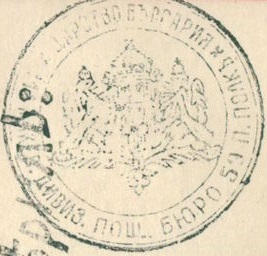 11th Division 59th Regiment's Seal